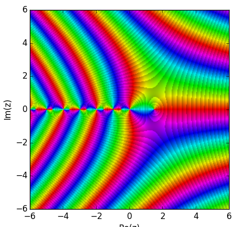 Derivative of the function Γ ( z ) {\displaystyle \Gamma (z)}